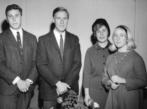 Konrad Bloch with family at the US embassy in Stockholm